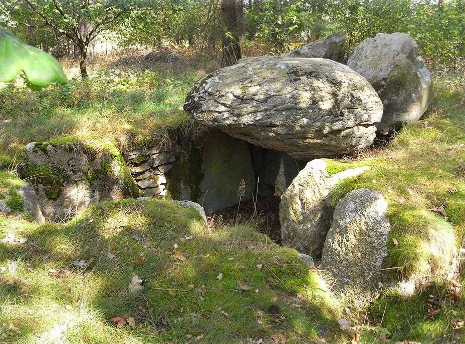 Großsteingräber auf dem Strietberg